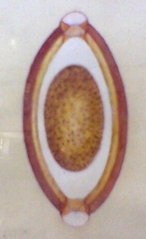 Egg of Trichuris trichura